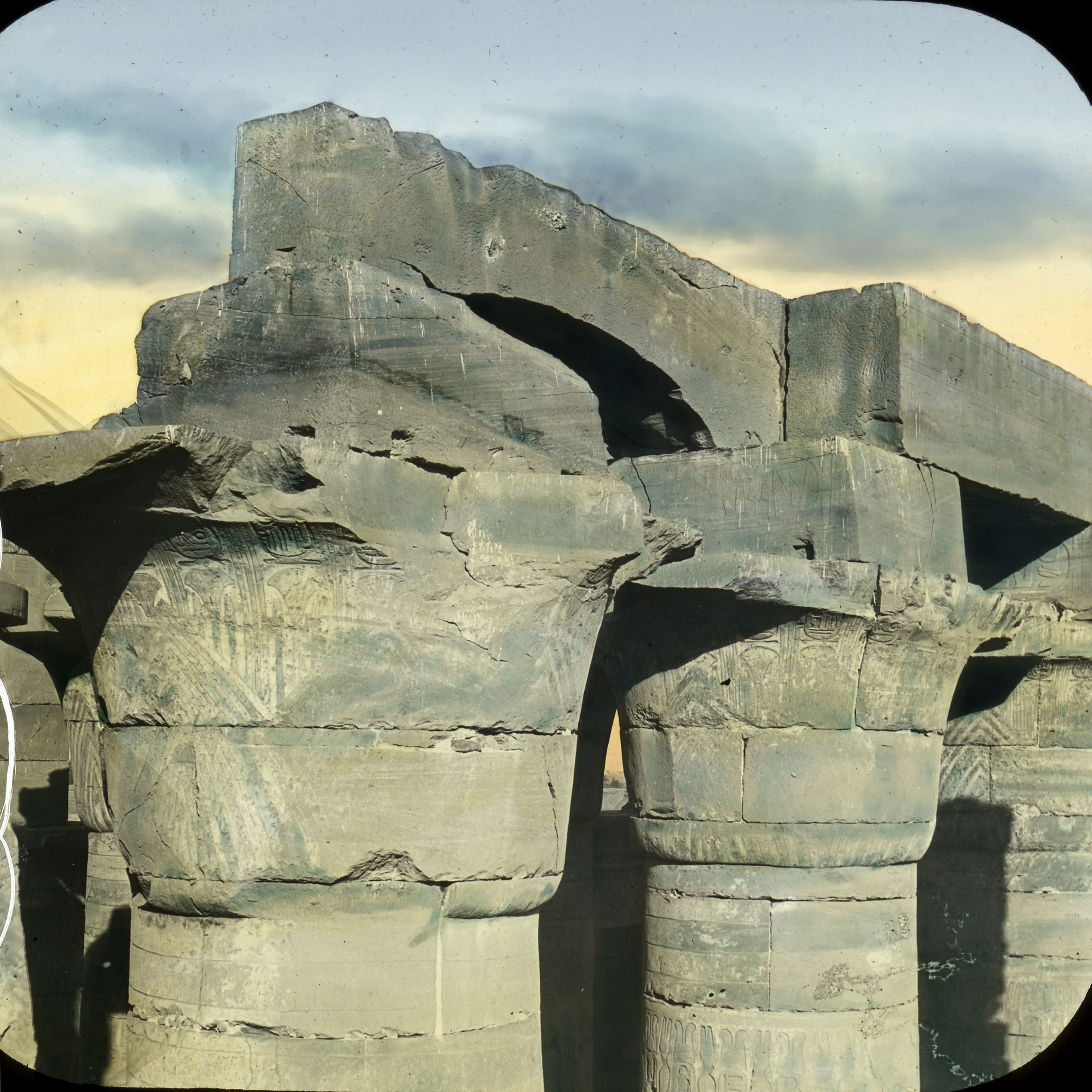 Egypt. Karnak [selected images]. View 04: Egypt - Karnak. Capitals in the Great Hall., n.d., This slide colored by Joseph Hawkes. Brooklyn Museum Archives (S10.08 Karnak, image 9876).